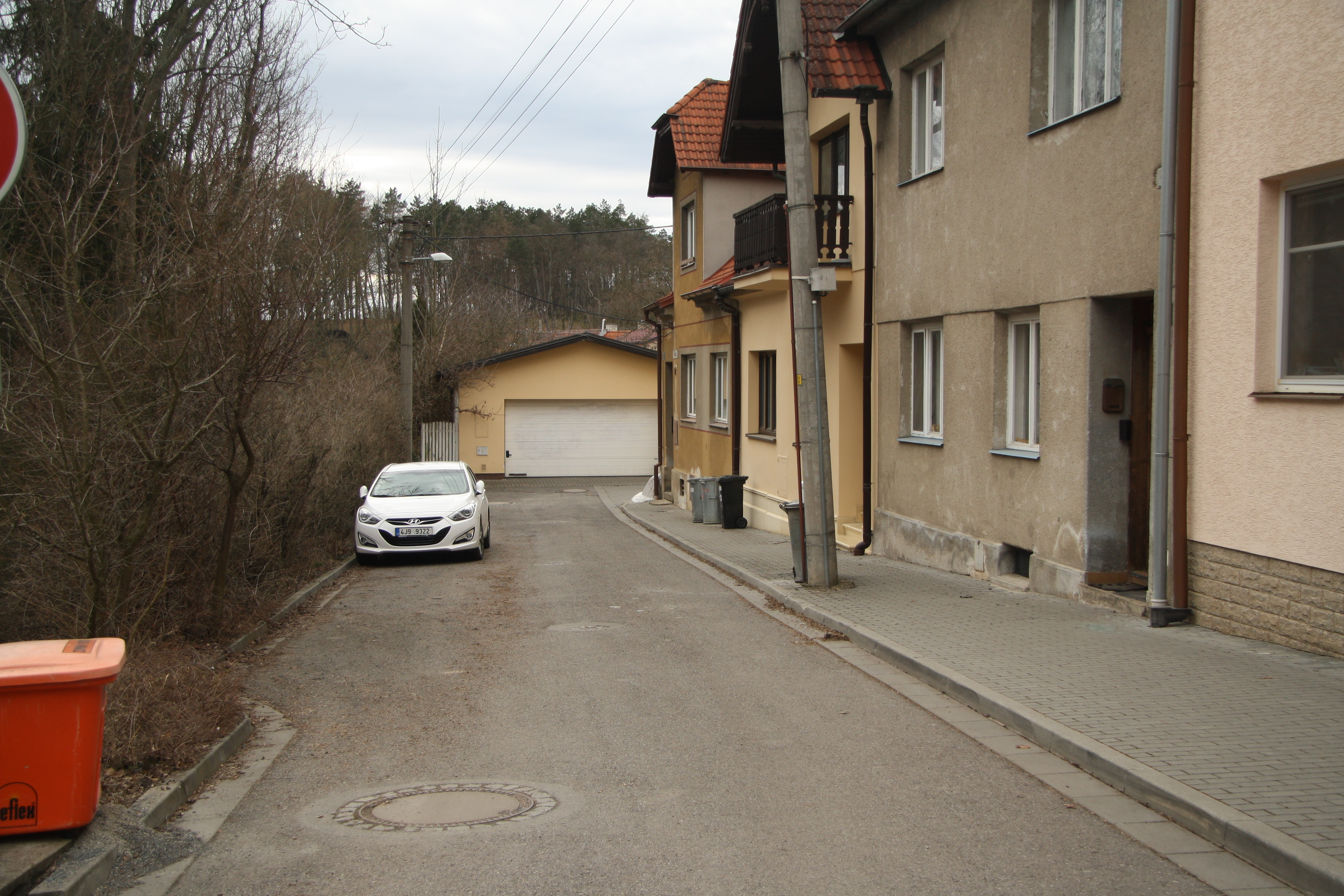 West view of Eliášova street in Třebíč, Třebíč District.